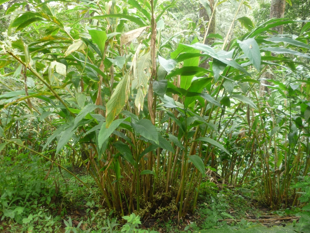 Fully-grown cardamom plant near Munnar, Kerala, India.